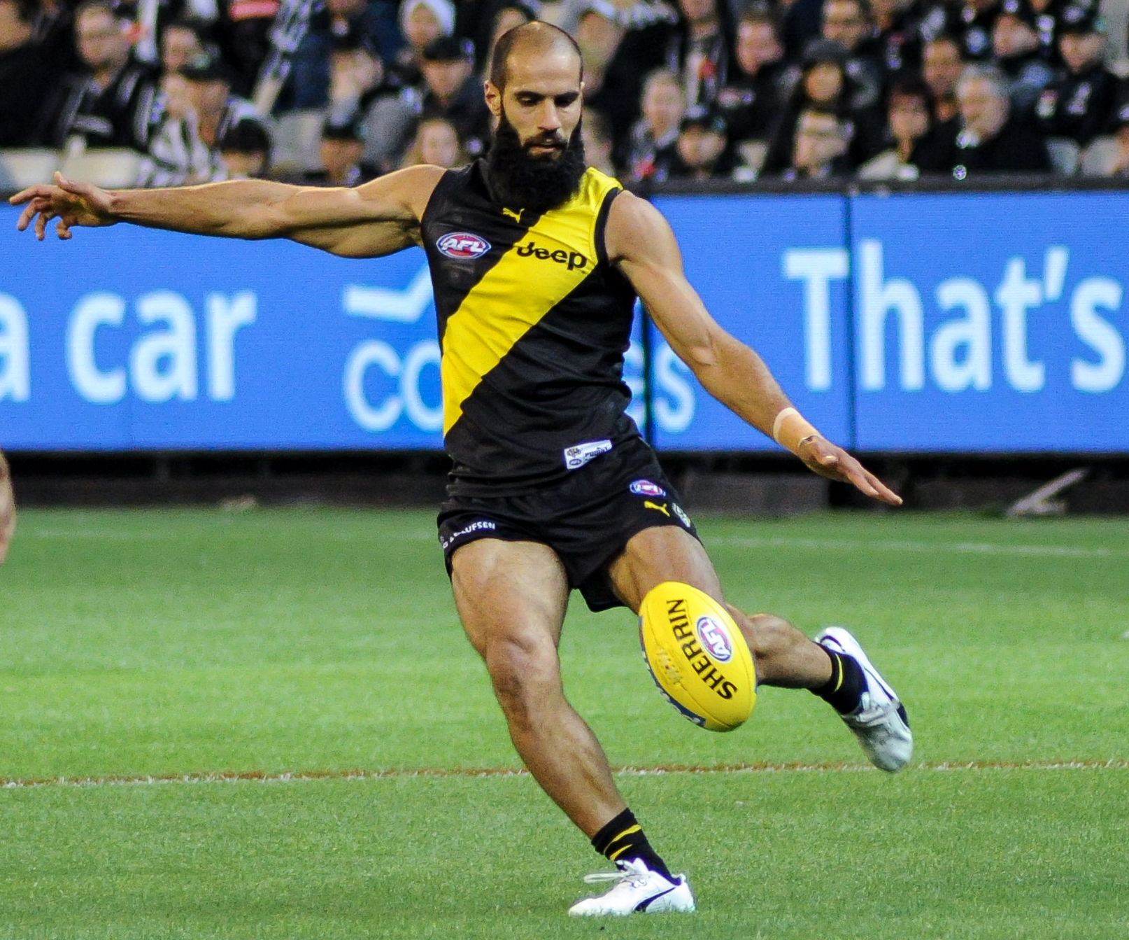 Bachar Houli kicking during the AFL round two match between Richmond and Collingwood on 30 March 2017 at the Melbourne Cricket Ground in Melbourne, Victoria.